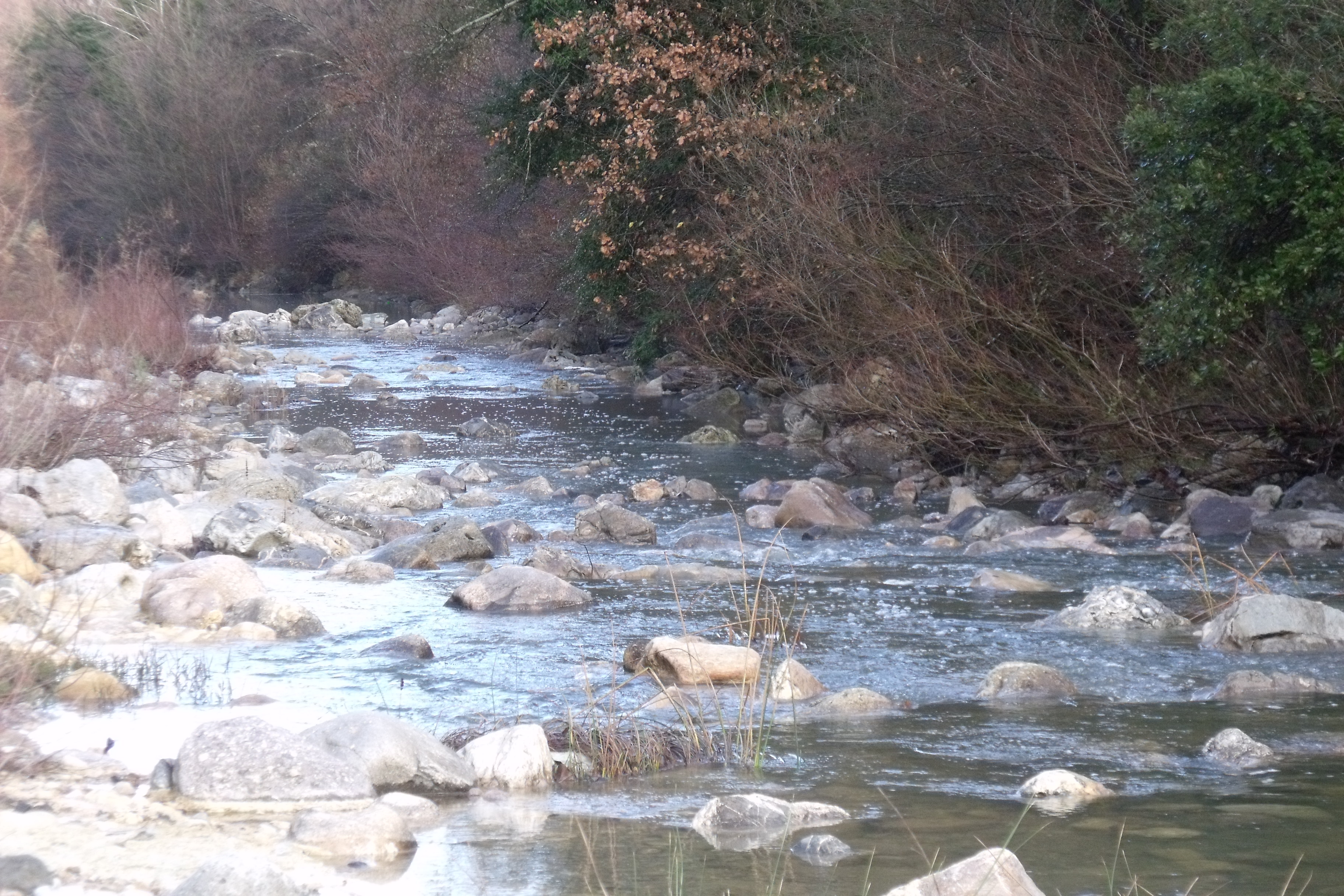 The River Farma near the Thermal bath of Bagni di Petriolo, Municipality of Monticiano, Province of Siena, Tuscany, Italy